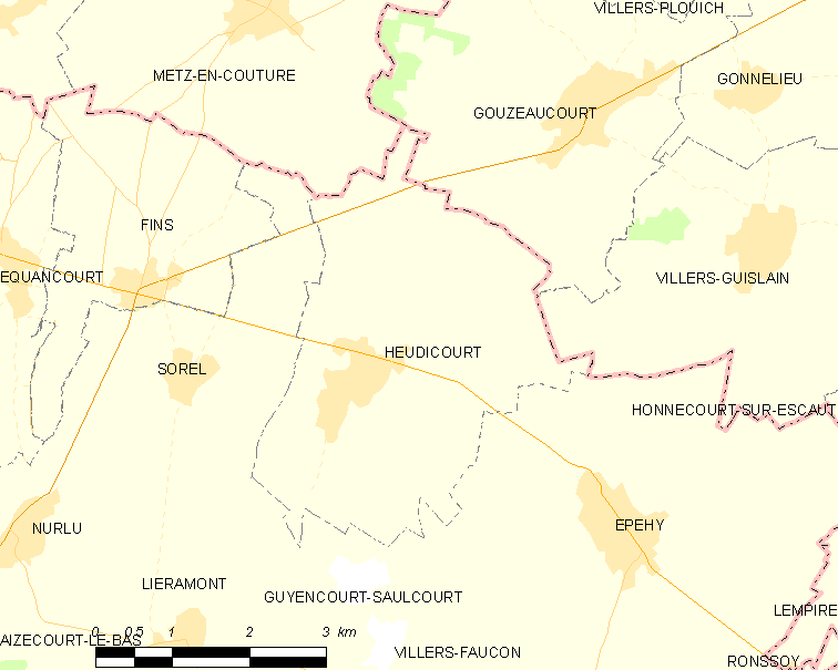 Map of French municipality Heudicourt